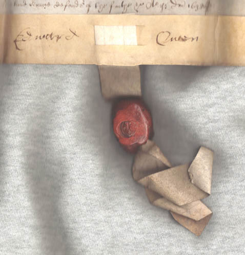 A large pine resin seal suspended from a tag on an English deed hand-written on fine vellum - dated 1638 From the private collection of Randy Benzie From [1]